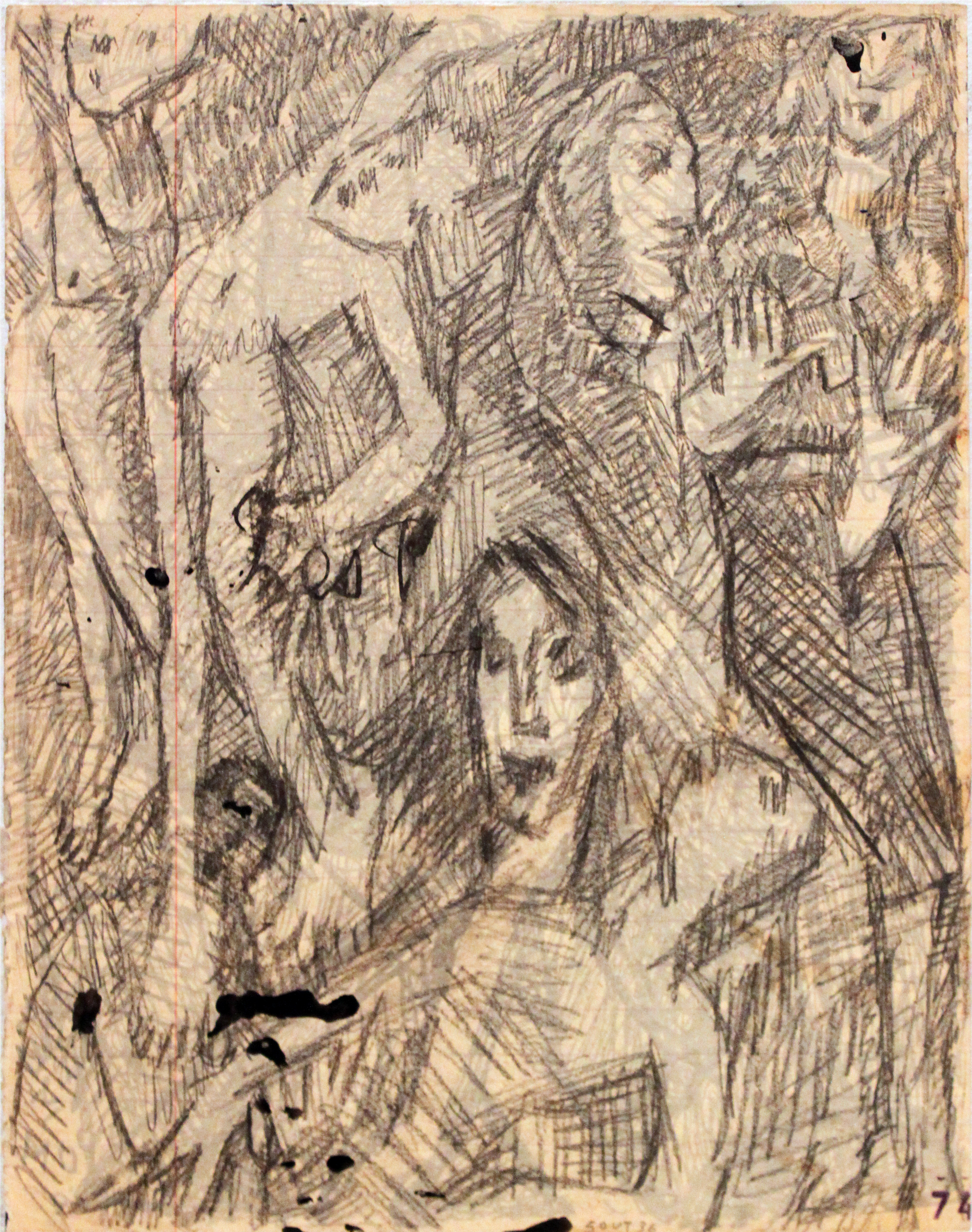 Les P